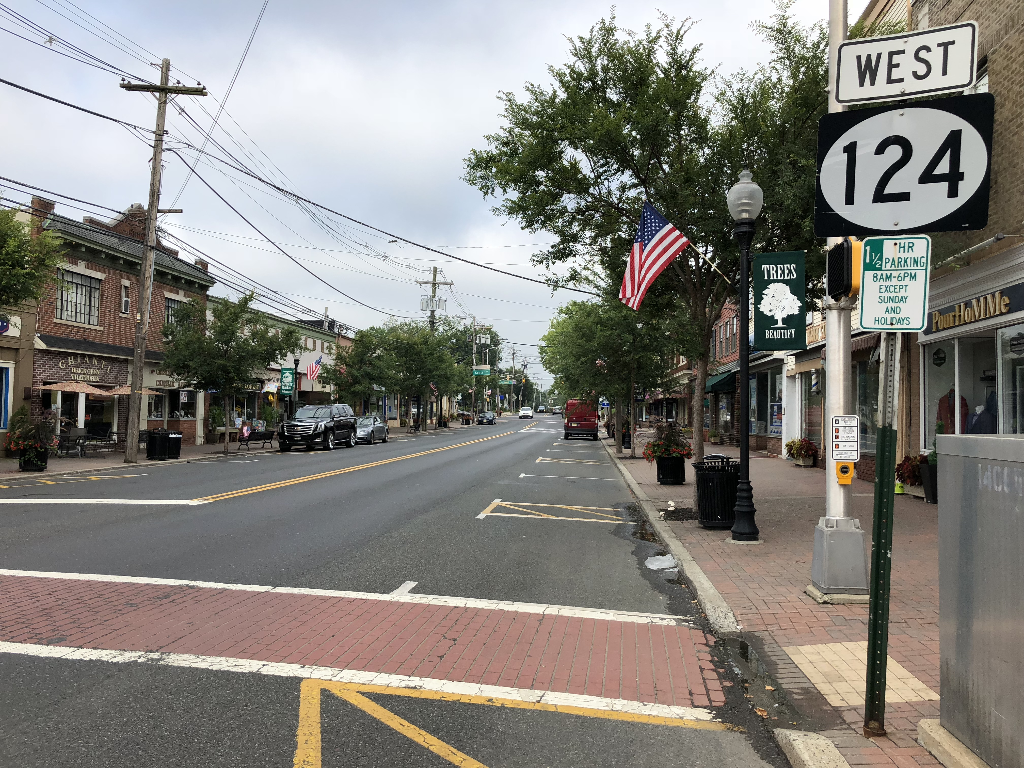 View west along New Jersey State Route 124 (Main Street) at Morris County Route 607 (Passaic Avenue) in Chatham, Morris County, New Jersey